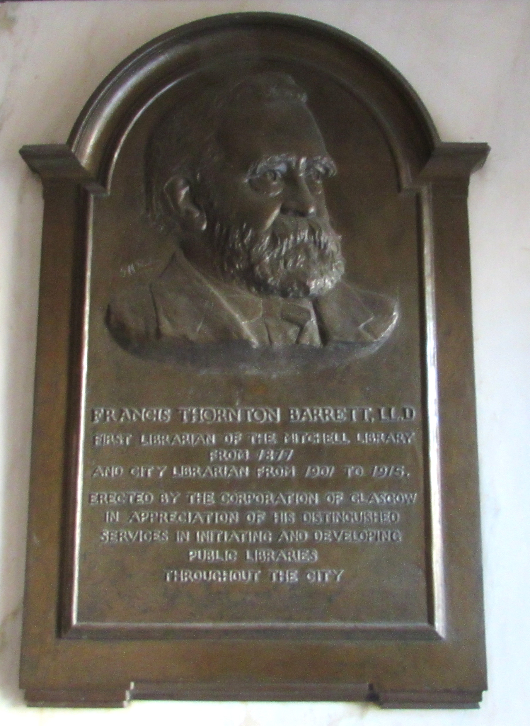 All who enter the Mitchell Library in Glasgow will pass this plaque commemorating the life and work of the first librarian at the Mitchell Library. The Library was opened in 1877 and was funded through a bequest from Stephen Mitchell who died in 1874.